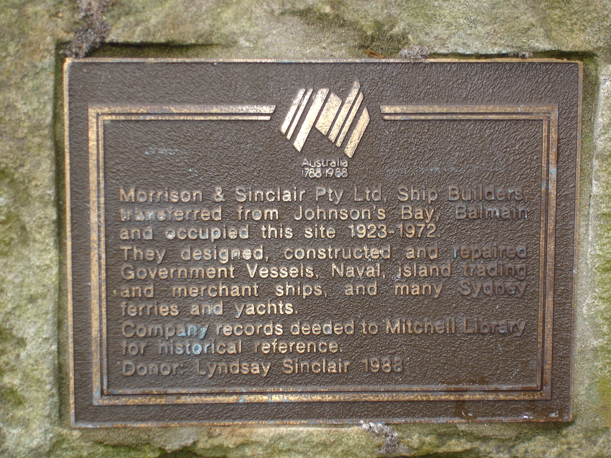 Yurulbin Park, Birchgrove, New South Wales